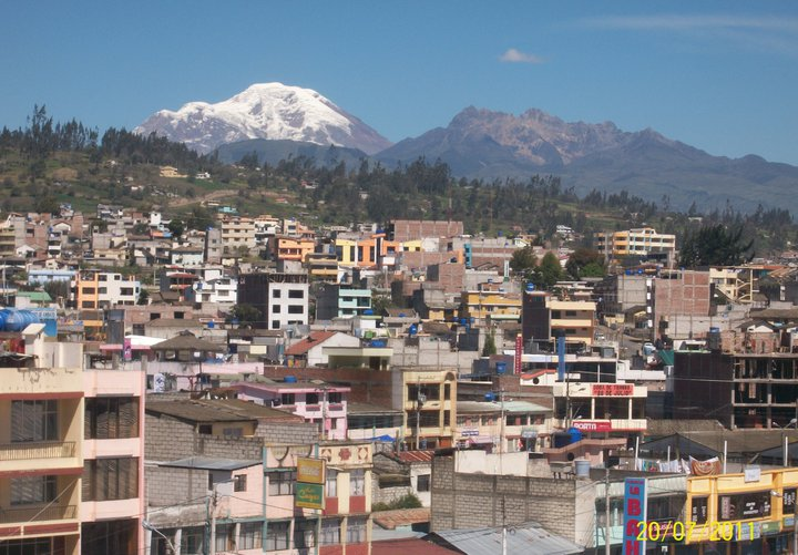 Beautiful view of the volcanoes Chimborazo and Carihuairazo from Pelileo